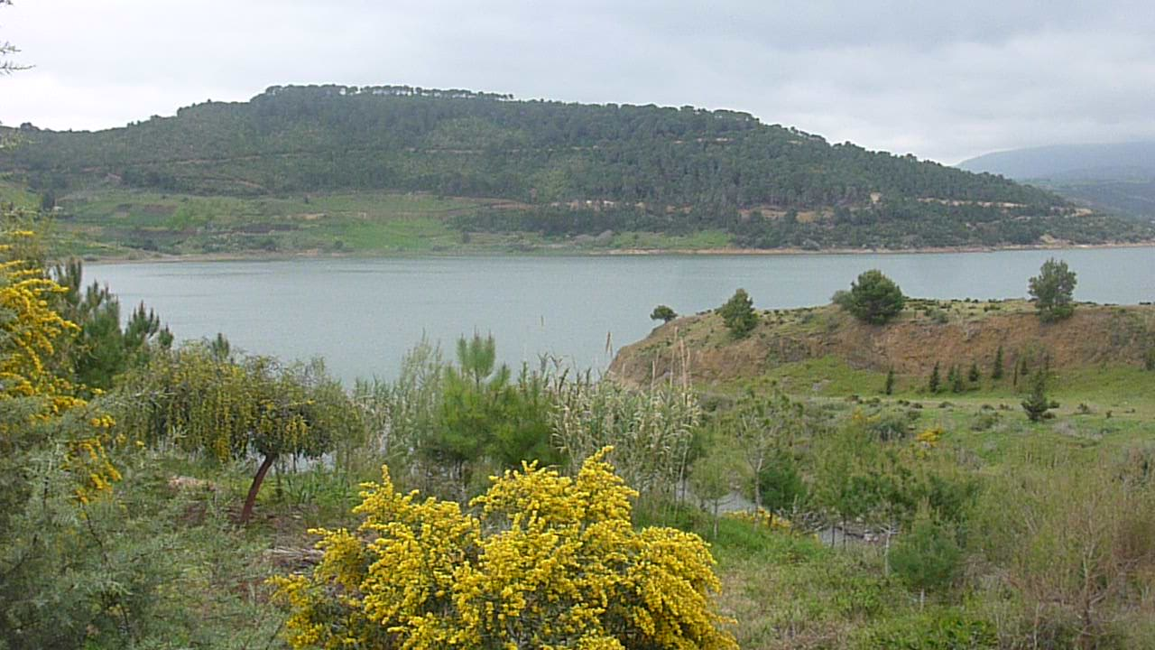 le barrage de Boukardoune situé dans la wilaya de Tipasa.